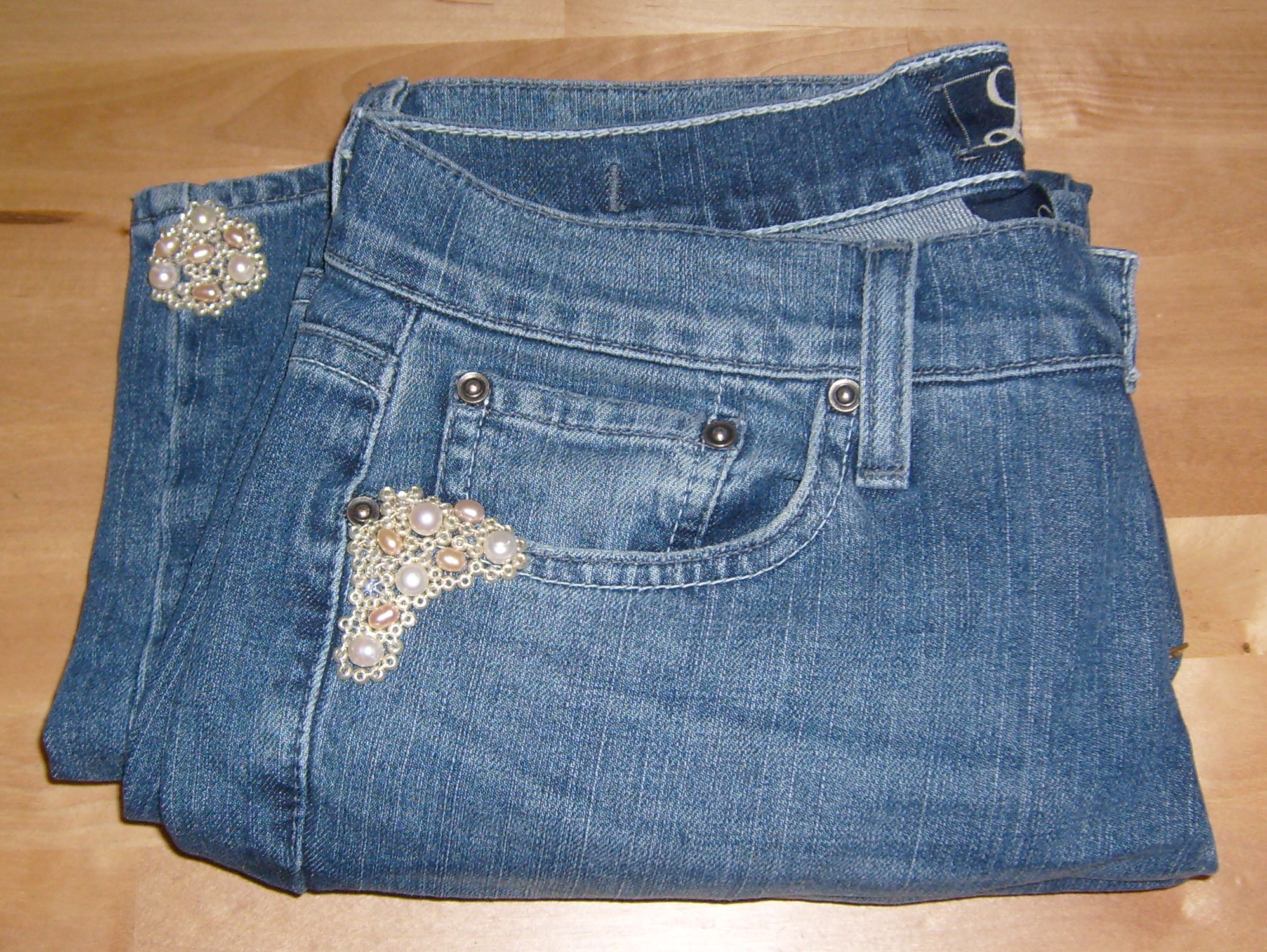 Bead embroidery on denim jeans: freshwater pearls and glass beads, modified brick stitch. Original design.